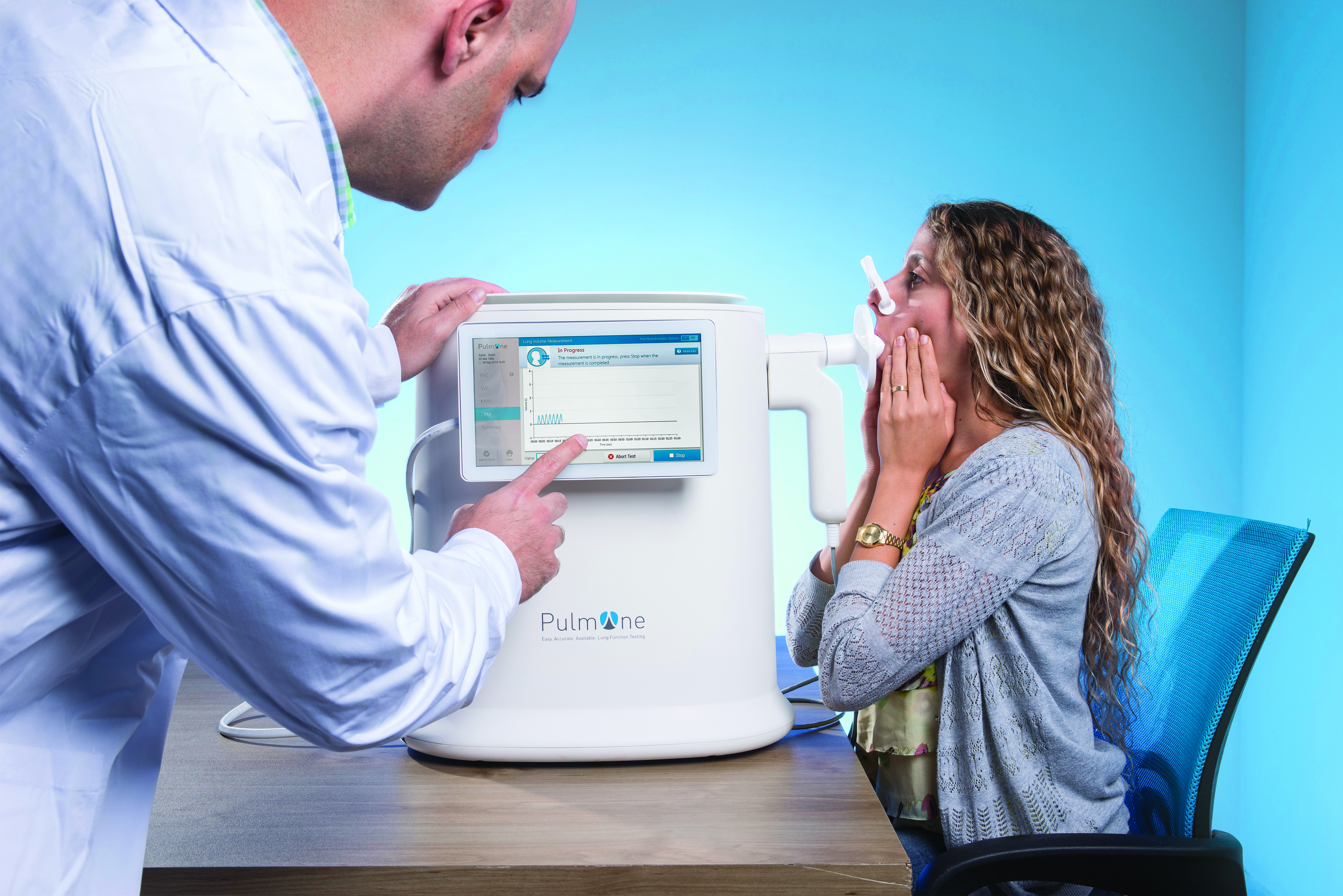 Cabinless, desktop plethysmography device for pulmonary function testing by Pulmone (